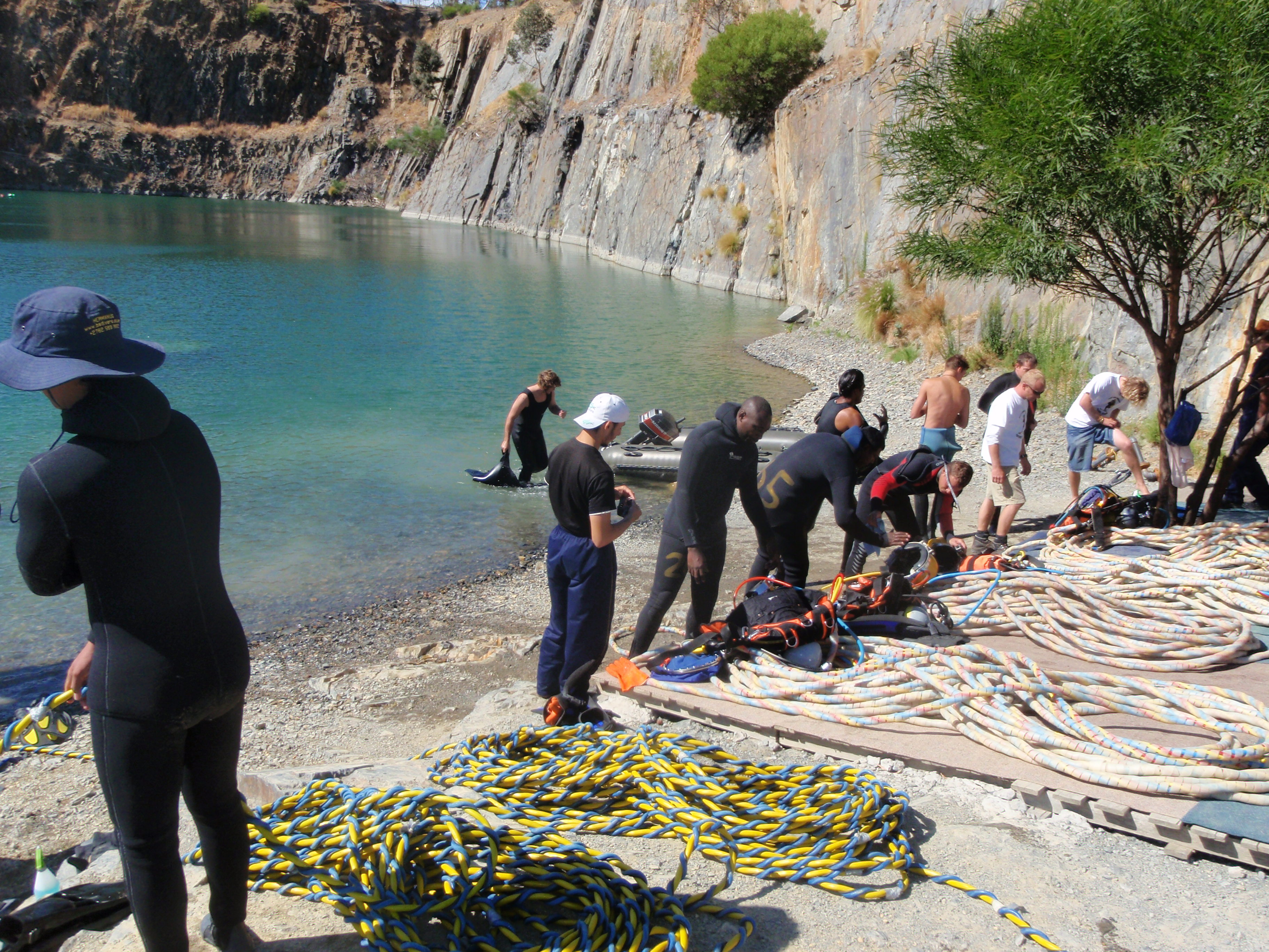 Commercial diver training at Blue Rock Quarry, Gordon's Bay.